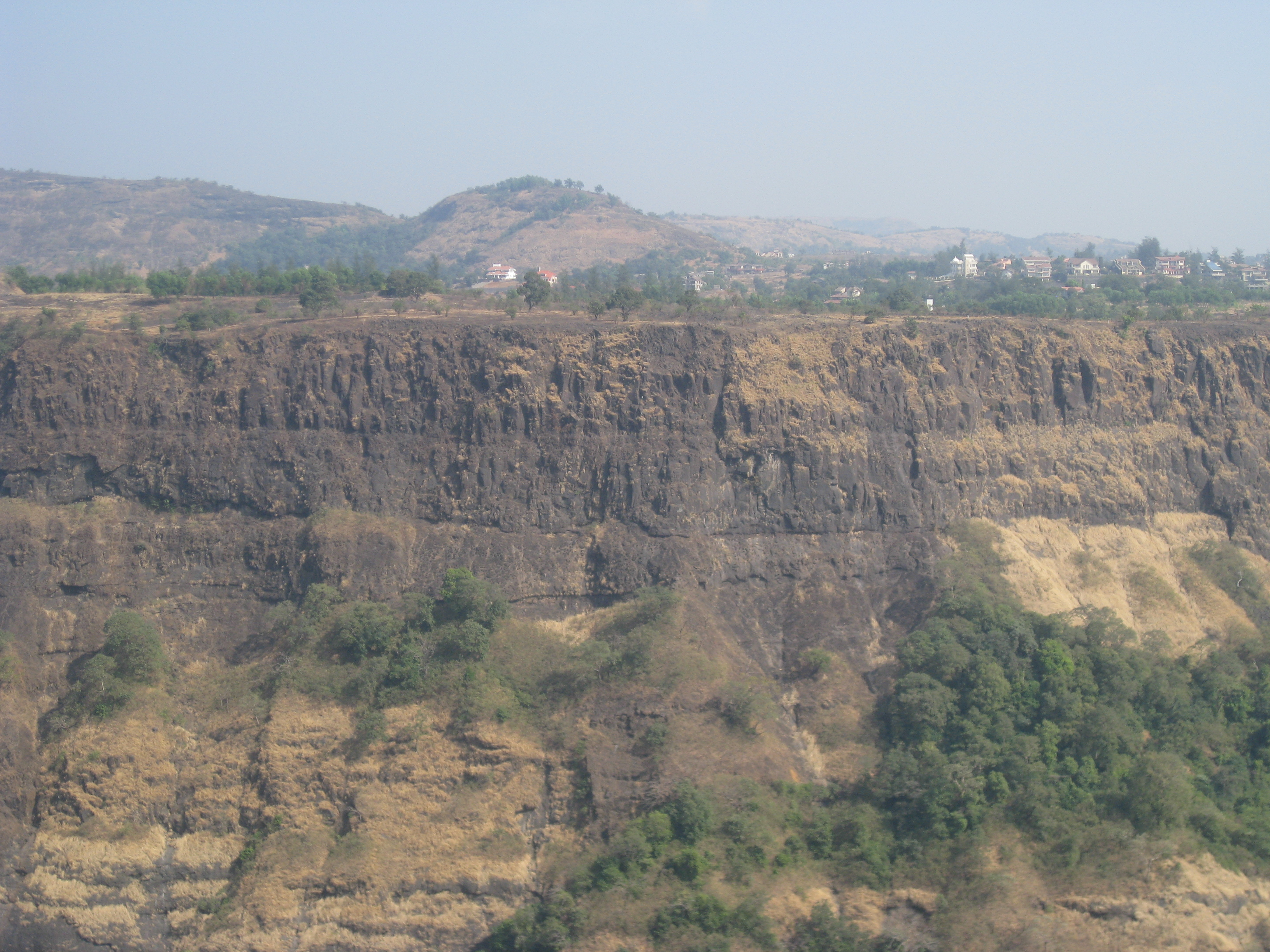 Khandala on Western Ghat